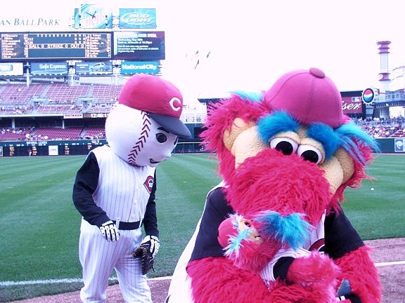 Mr. Red and Gapper; Cincinnati Reds mascots.